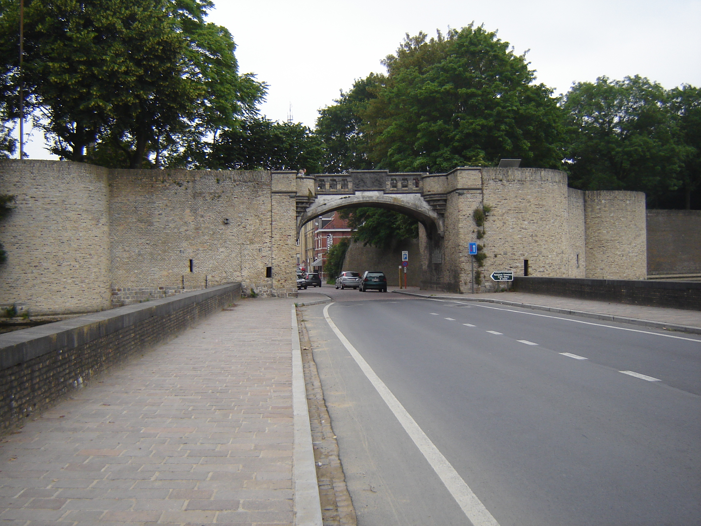 Rijselpoort gate in Ieper, West Flanders, Belgium